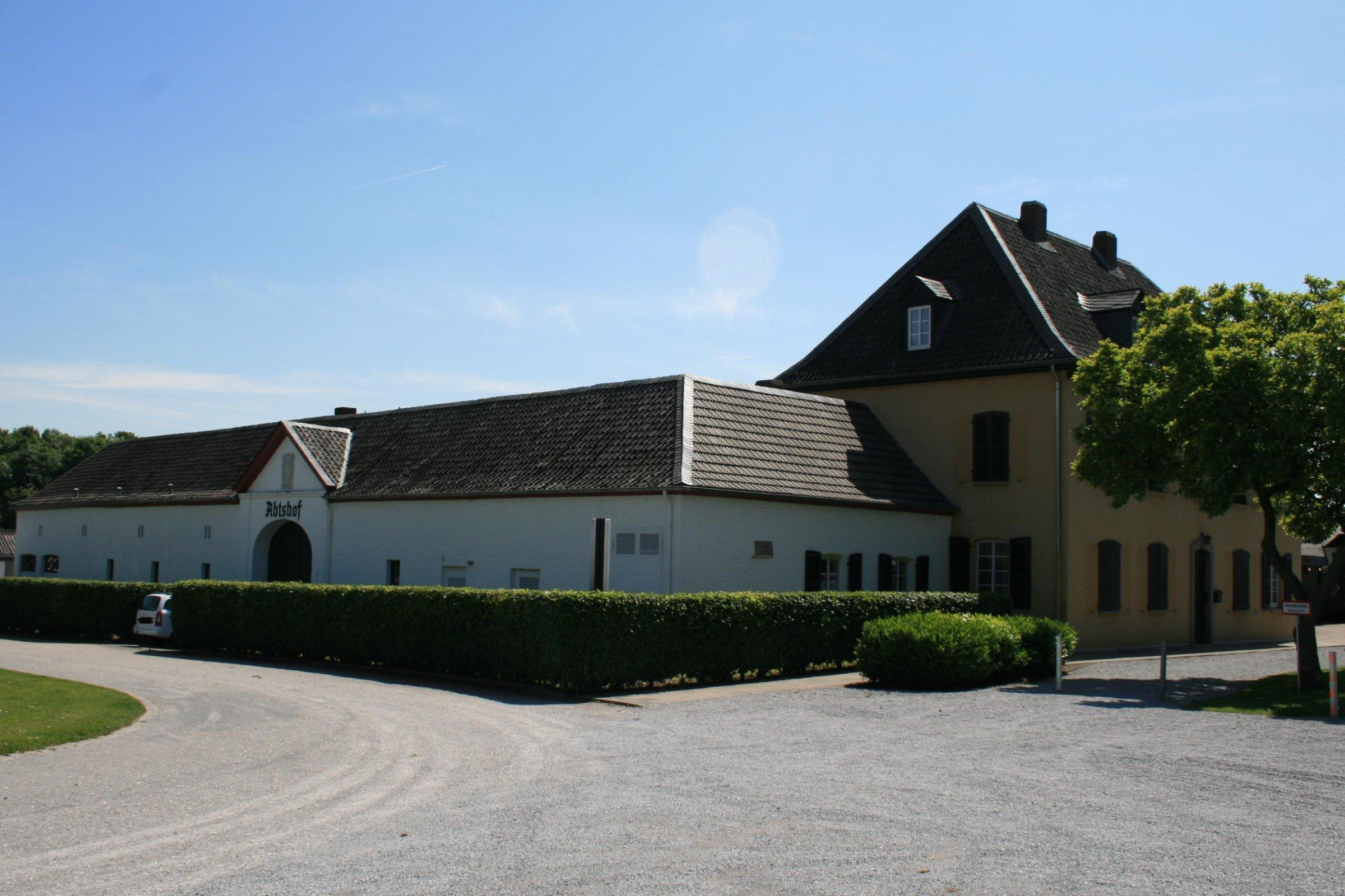 Cultural heritage monument No. K 020 in Mönchengladbach